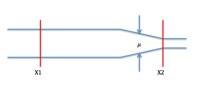 Roadway section experiencing a bottleneck.